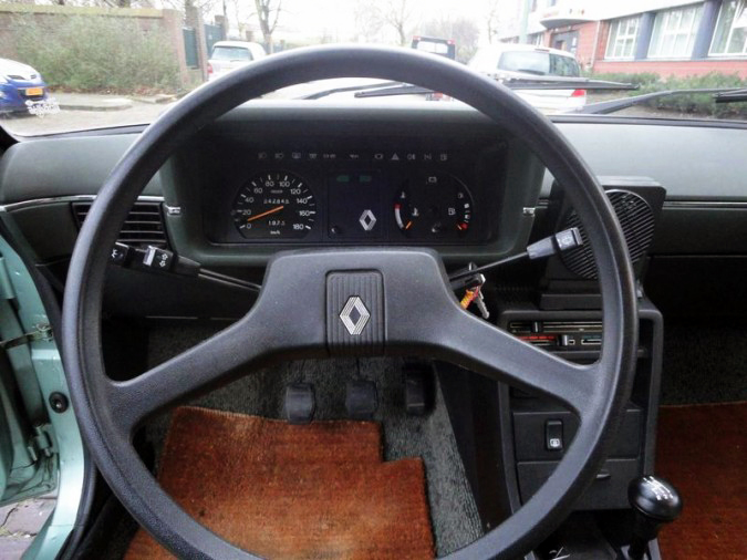 Dashboard of 1980 Renault R18 TL Break